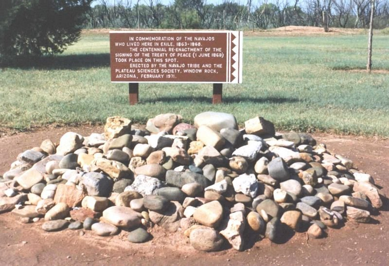 Photo of a marker at Bosque Redondo, Fort Sumner, in New Mexico